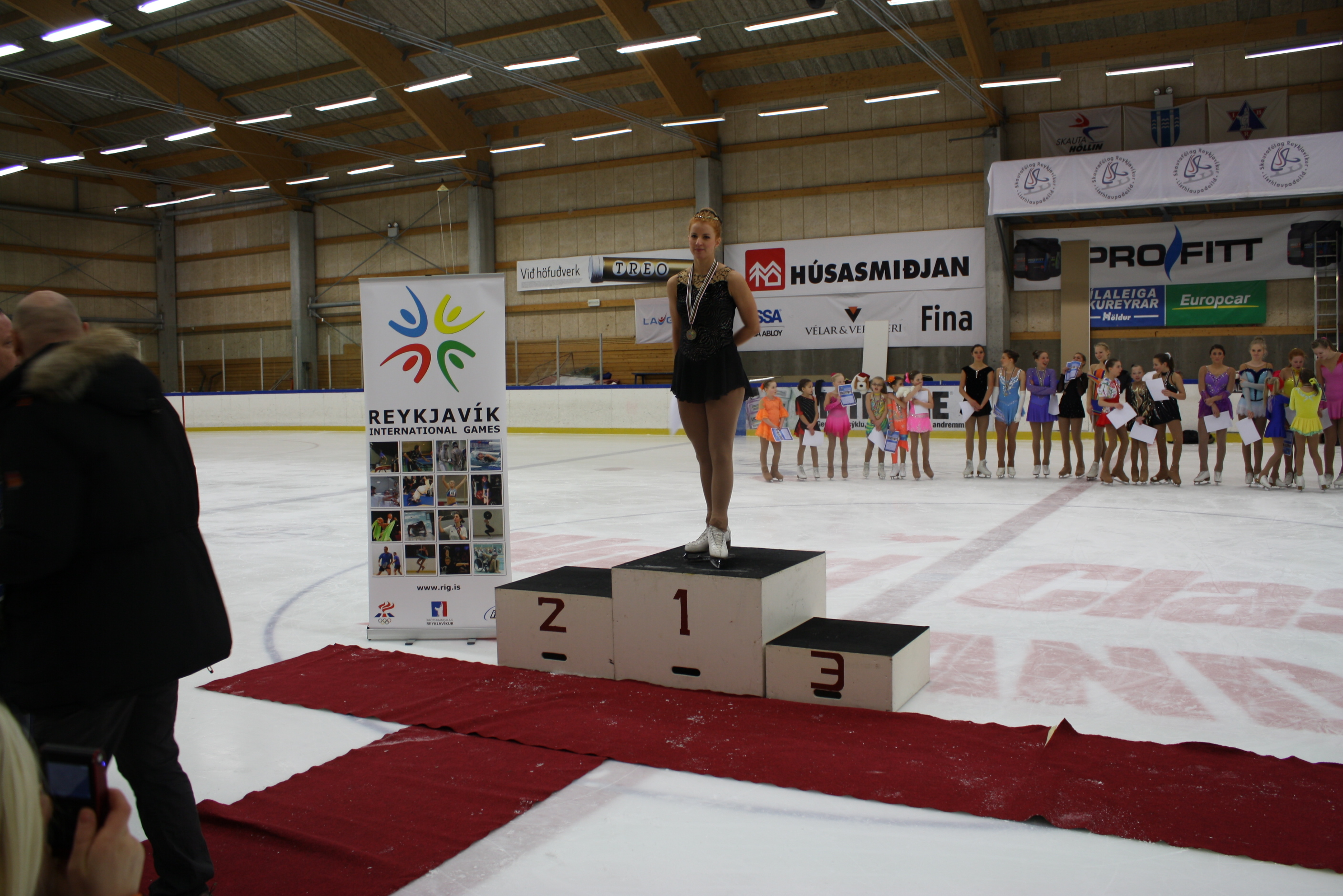 Senior: Guðbjörg Guttormsdóttir ISL Gold medal Reykjavik International Games 2013